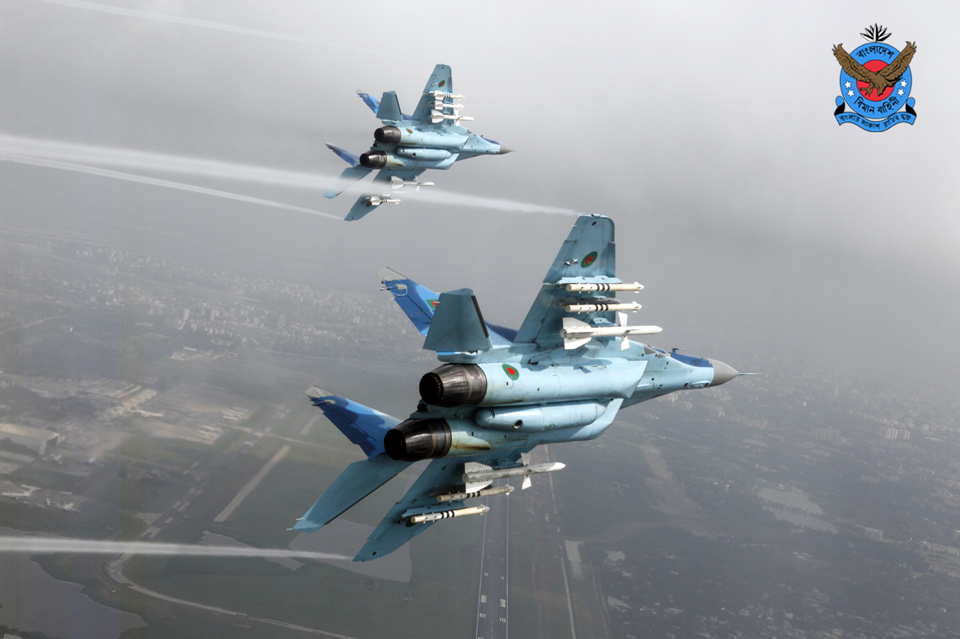 Bangladesh Air Force MiG-29